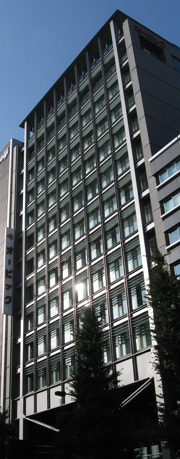 OBIC Co.,Ltd.